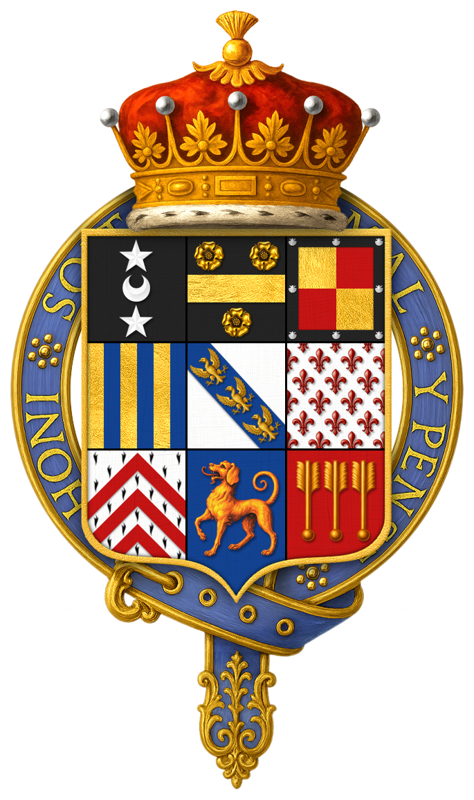 Coat of arms of Henry Jermyn, 1st Earl of St Albans, KG